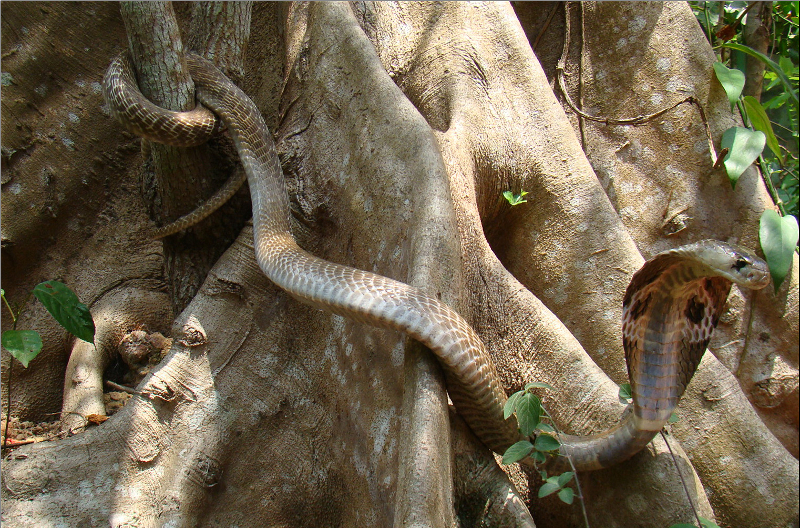 Indian spectacled cobra(Naja naja) in its habitat